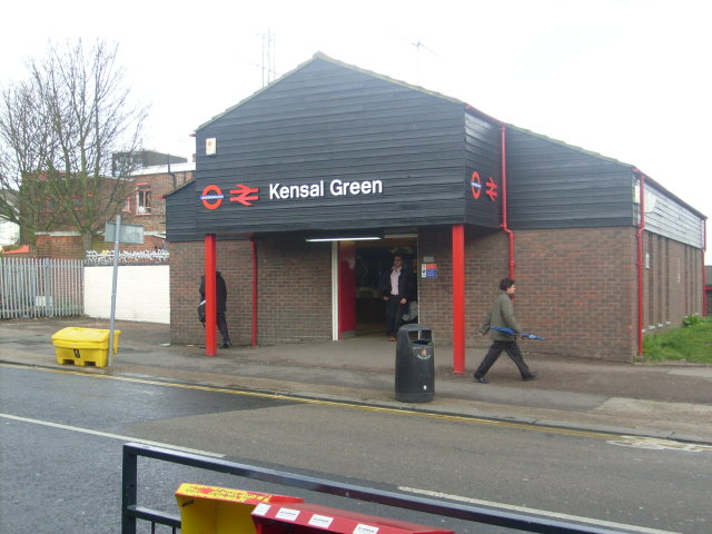 Kensal Green Tube Station